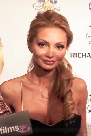 Gia Skova, Russian actress and supermodel, Night of 100 Stars Oscar Party 2011, interviewed by Jennifer Lexon of Real TV Films